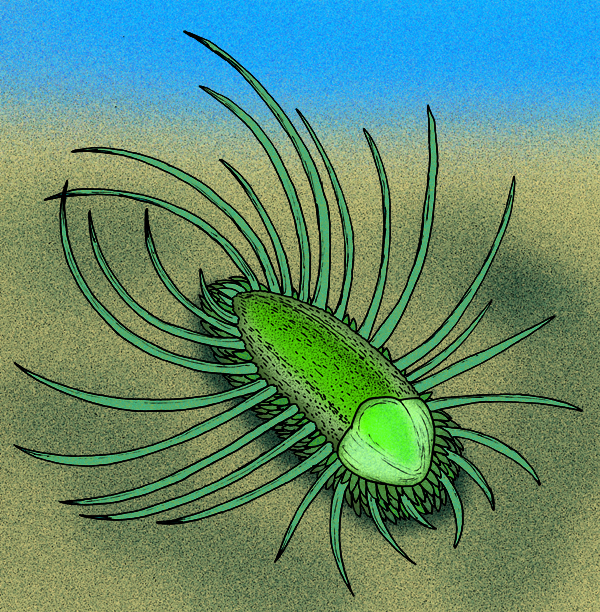 Reconstruction of the Burgess Shale organism Orthrozanclus reburrus. Conway Morris, S., and Caron, J.-B. (March 2007). Halwaxiids and the Early Evolution of the Lophotrochozoans, Science 315 (5816): 1255-1258 ( Retrieved 2008-08-07.